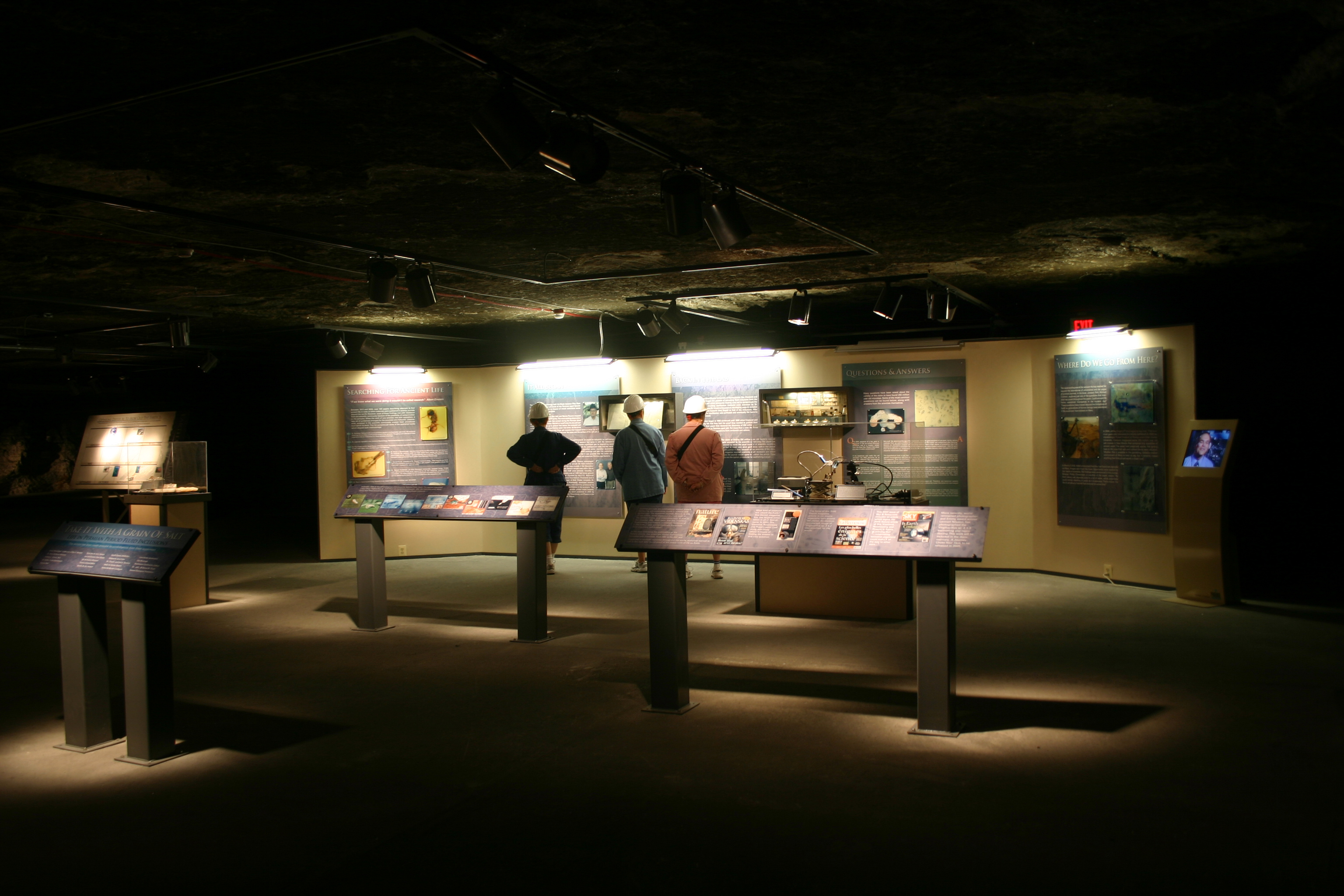 The Vreeland exhibit located in the Geology Exhibit at the Kansas Underground Salt Museum.